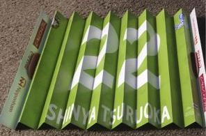 CLAPBANNER Fighters